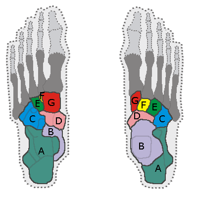 The bones of the tarsus with A=calcaneus, B=talus bone, C=cuboid bone, D=navicular bone, E=lateral cuneiform, F=intermediate cuneiform and G=medial cuneiform. In dark grey the metatarsals. Left image: seen from below. Right image: seen from above.